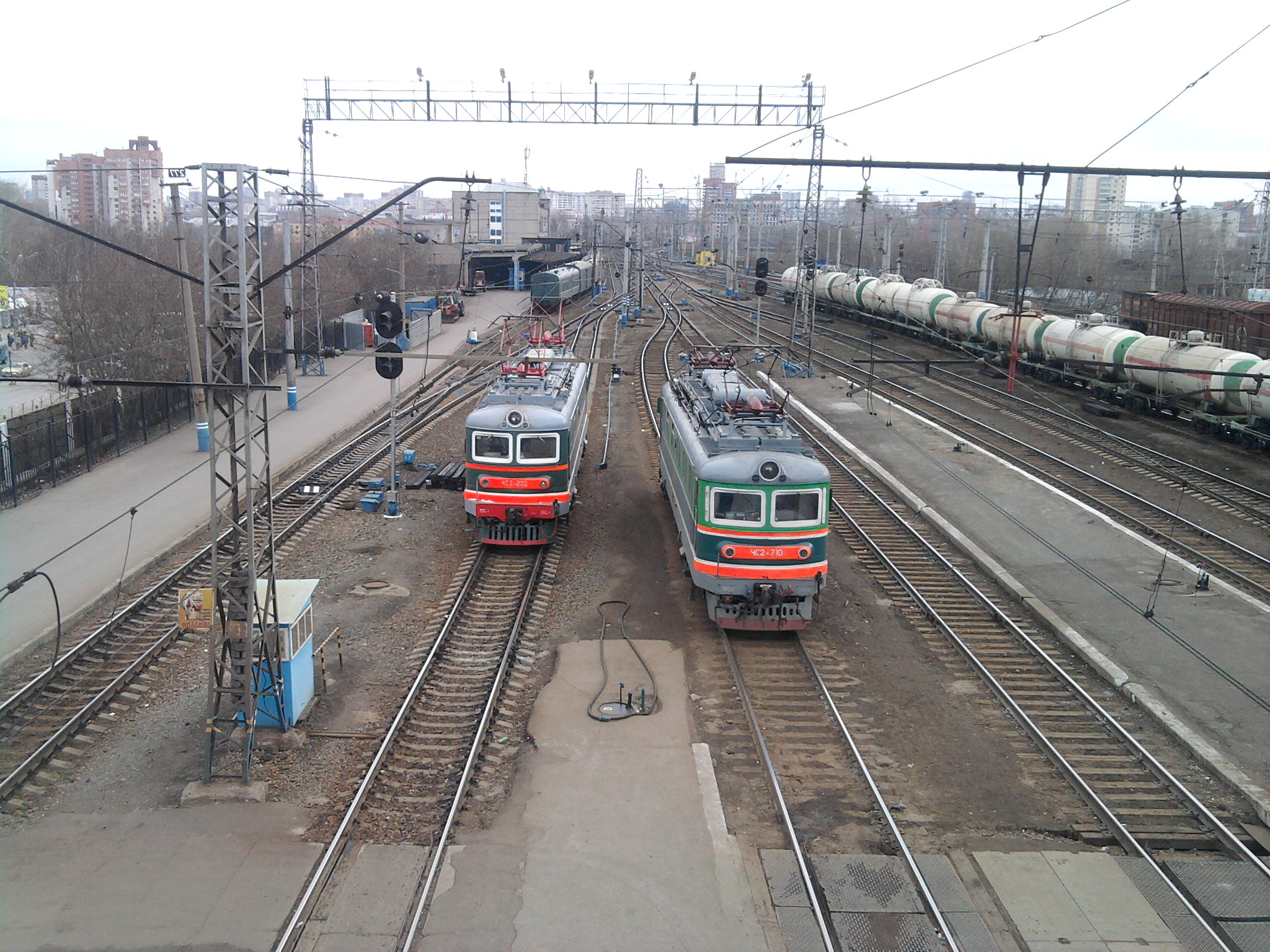 Electric locomotives ChS2-202 and ChS2-710 in Perm-II station